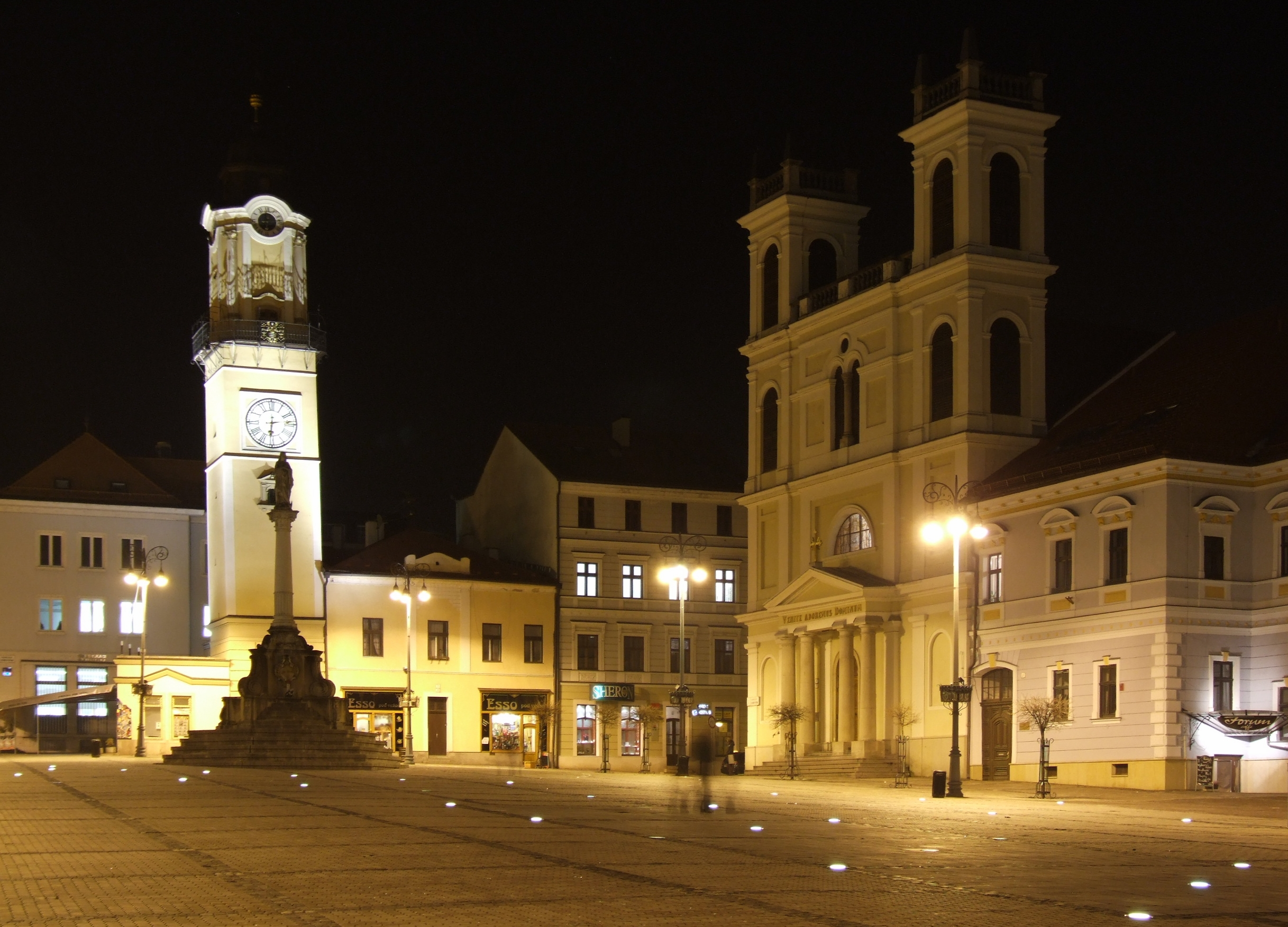 Banská Bystrica - Námestie SNP by night